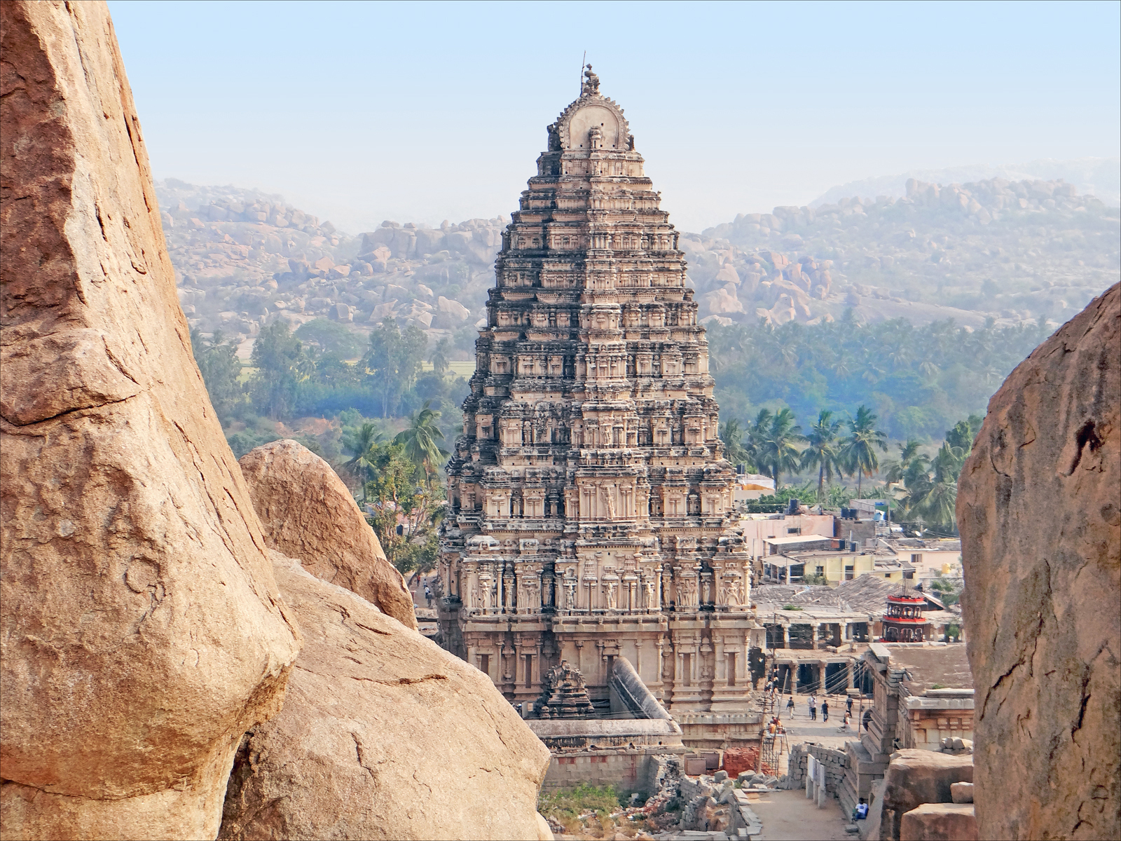 Virupaksha, a 7th century Hindu temple, is located in Hampi 350 km from Bangalore, in the state of Karnataka in southern India. It is part of the Group of Monuments at Hampi, designated a UNESCO World Heritage Site. Virupaksha is a form of Shiva and has other temples dedicated to him, notably at the Group of Monuments at Pattadakal, another World Heritage Site. In 1565, Muslim Sultanate army attacked the Hindu Vijayanagara kingdom and razed, depopulated, and destroyed Vijayanagar city and its numerous Hindu temples and icons, including Virupaksha, over a period of several months. They were rebuilt, in original style, by local Hindus, in 19th and 20th centuries. Le temple de Virupaksha est le plus ancien et le plus important de Hampi. C'est un centre de pèlerinage pour les dévôts de Shiva. Le premier sanctuaire, consacré à Pampa, une déesse locale, a été créé sur ce site au VIIè siècle. Par la suite, la déesse est devenue Virupaksha, une des formes de Parvati, la parèdre de Shiva, auquel elle a été symboliquement mariée. Le temple est situé sur la rive sud de la rivière Tungabadra, dans la ville sacrée.